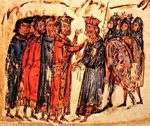 Krum captures Nikephorus